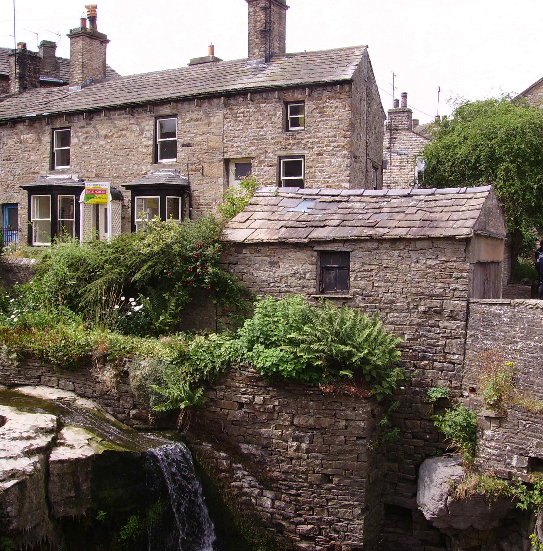 view of Hawes in the Yorkshire Dales, United Kingdom